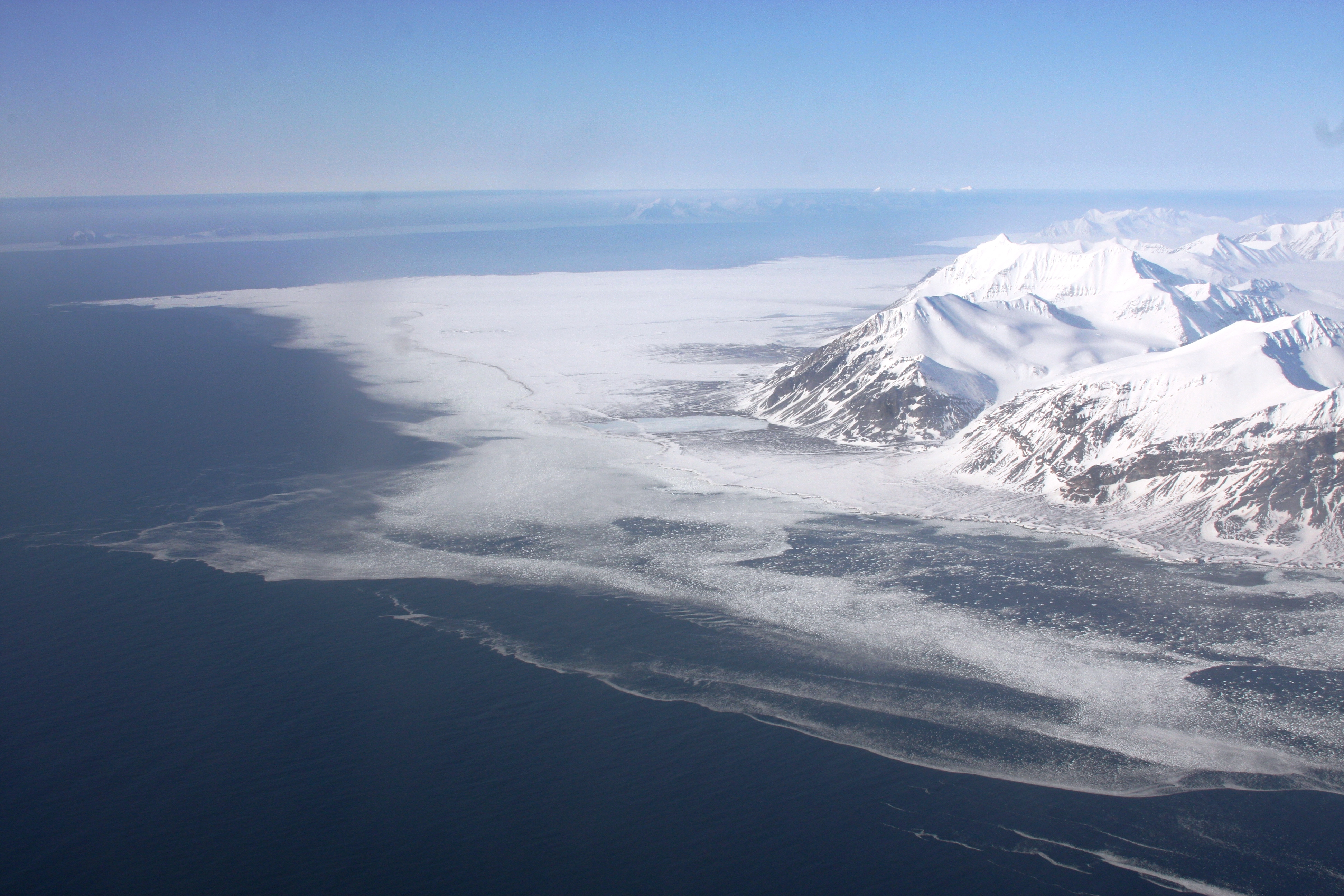 Daudmannsöyra with Daudmannsodden (Dead Man's Cape), on Oscar II Land, constituting the right shore of the mouth of Isfjorden (Ice Fjord), Spitsbergen. The mountain is Lexfjellet (Mt Lex), at 997 m.